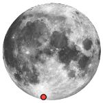 Description: Location of the Moretus and Newton craters on the Moon. Source: This is a modified version of the photo obtained from the NASA Planetary Photojournal. It was modified by RJHall. Width: 150 pixels Height: 150 pixels